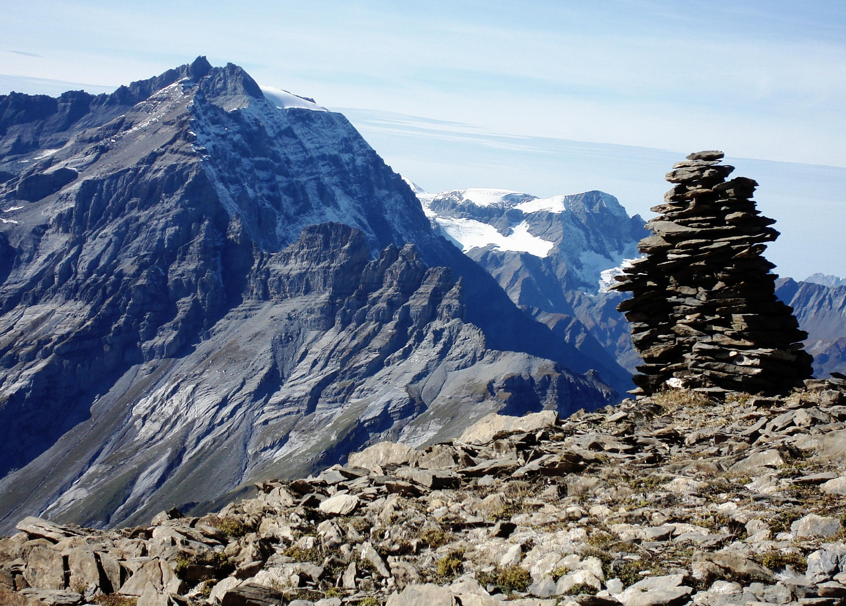 East view of Ringelspitz and Piz Sardona in distance, Switzerland.